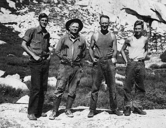 A photo of (left to right) Jules Eichorn, Norman Clyde, Robert L. M. Underhill and Glen Dawson, taken the day folowing their first ascent of the East Face of Mount Whitney. The photo was taken for Glen Dawson by Francis Farquhar.